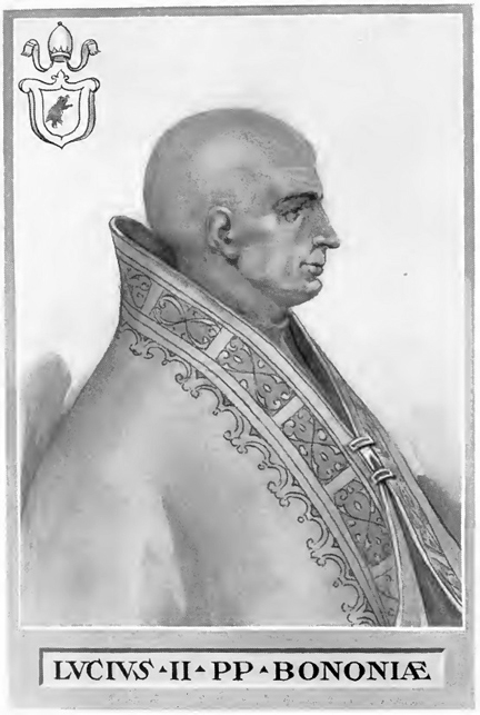 This illustration is from The Lives and Times of the Popes by Chevalier Artaud de Montor, New York: The Catholic Publication Society of America, 1911. It was originally published in 1842.